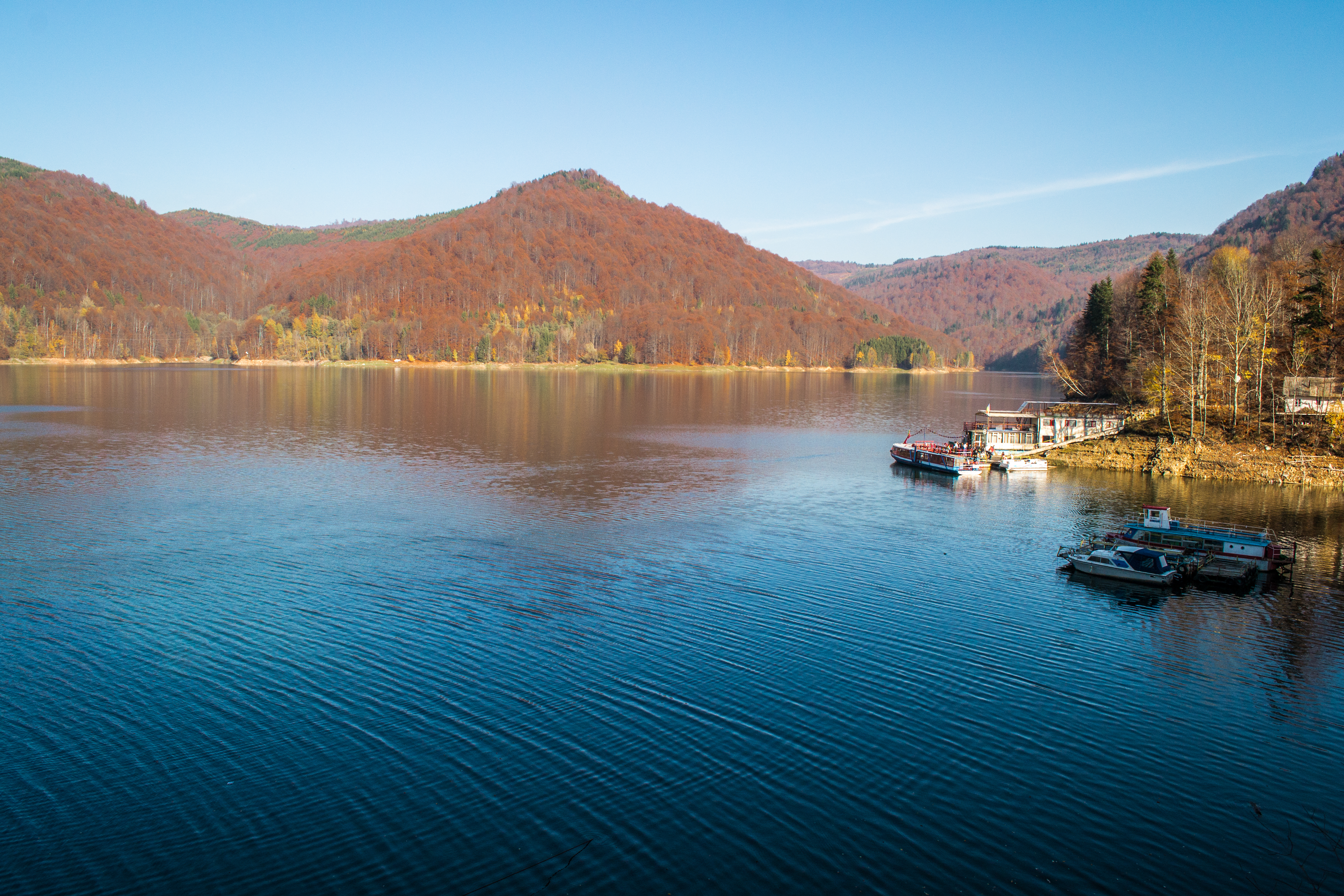 ⓒ2013 Andrew Colin